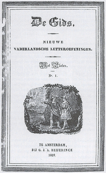 Cover of Dutch literary magazine De Gids, 1837